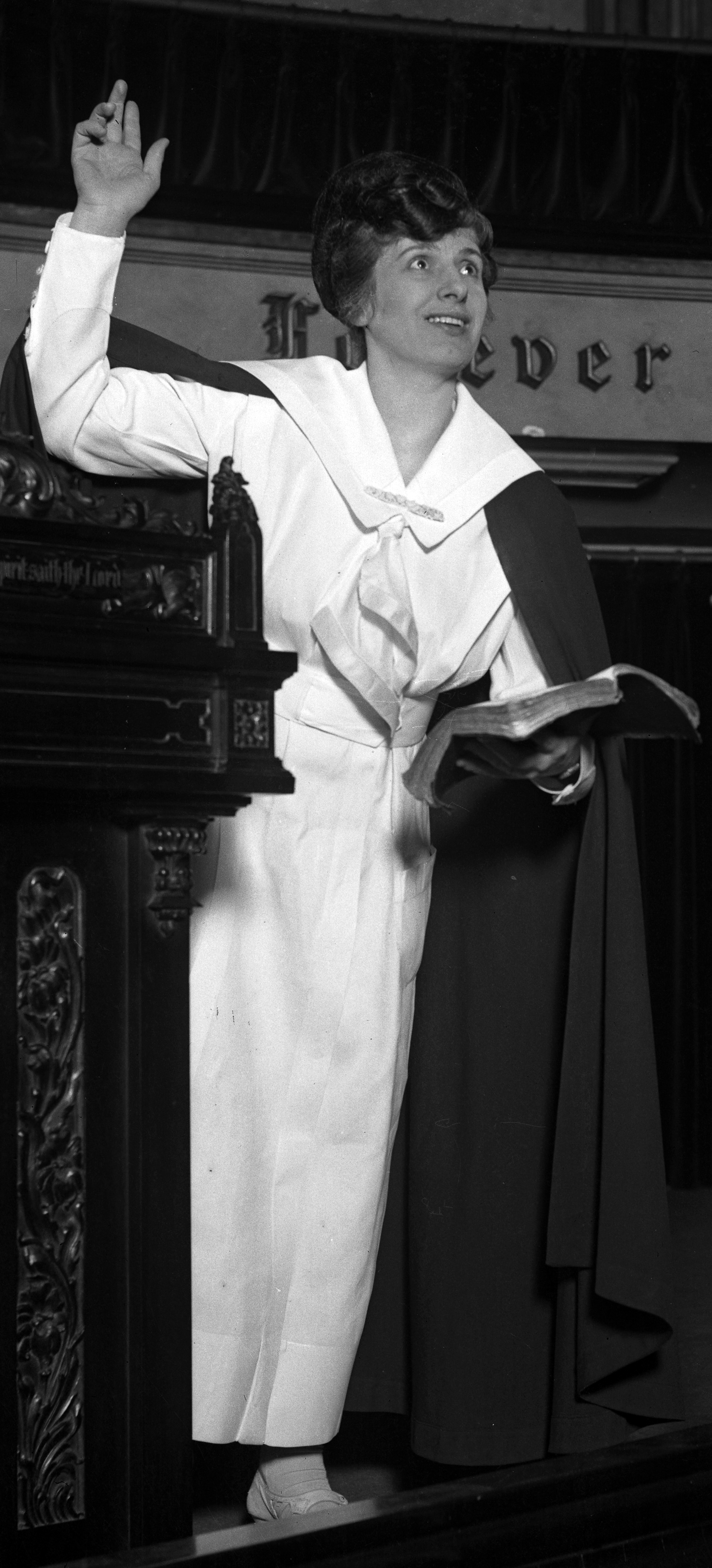 Aimee Semple McPherson preaching at the newly built Angelus Temple in 1923. Her messages showcased the love of God, redemption and the joys of service and heaven; contrasting sharply with the fire and brimstone style of sermon delivery popular with many of her peers.